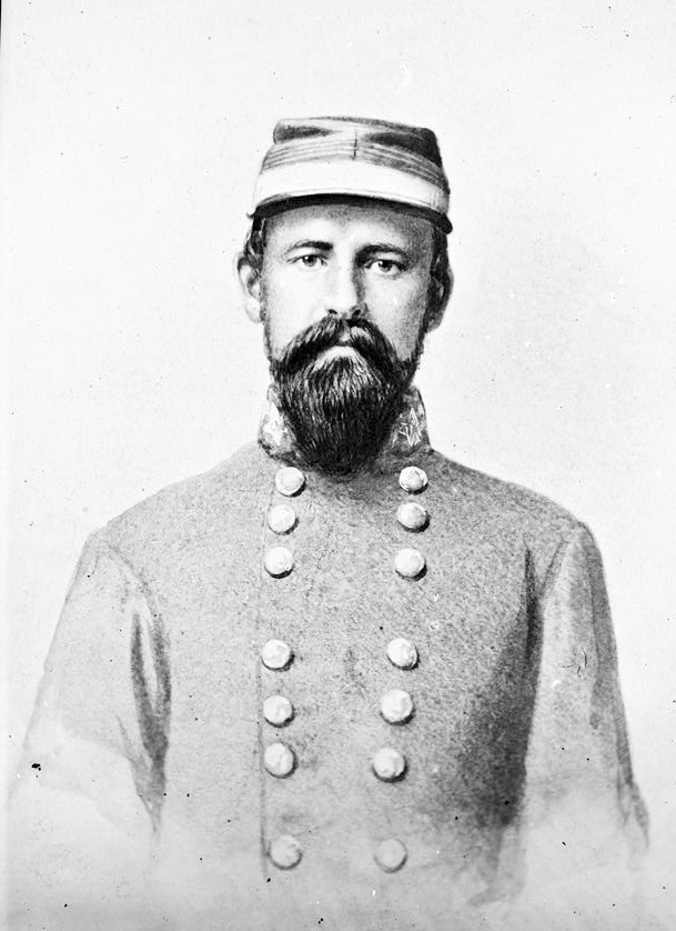 This photo in the Library of Congress is labeled "Franklin Gardner, CSA, Born N.Y.C." but it may instead be a photo of Confederate Brig. Gen. Richard B. Garnett.